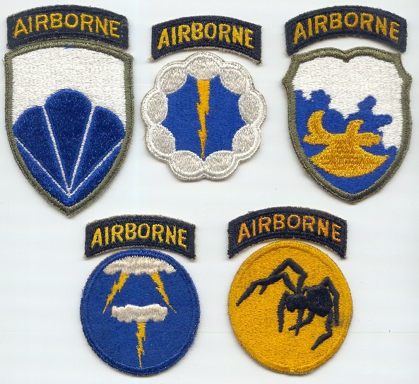 Phantom World War II Divisions (United States)